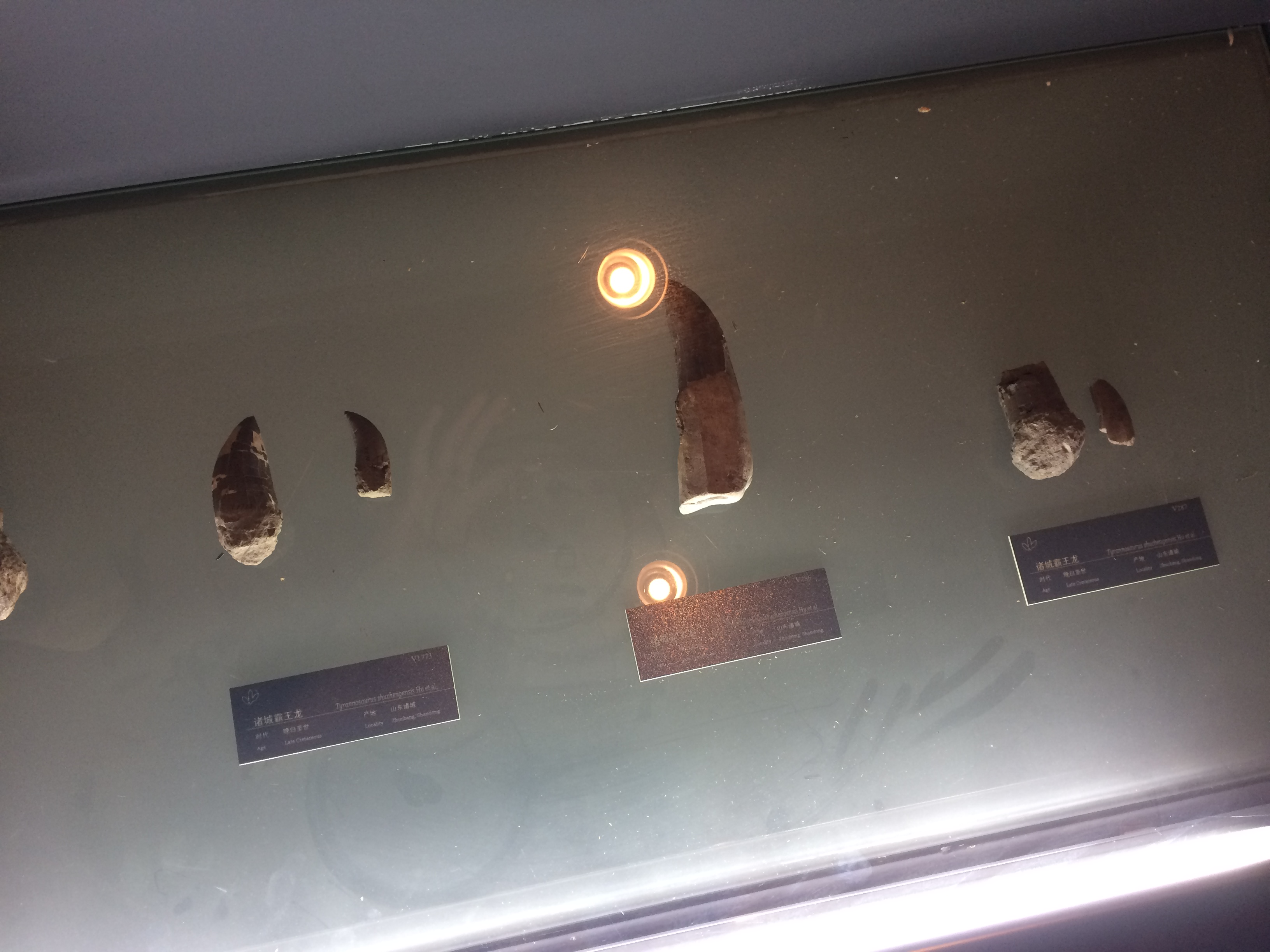 "Tyrannosaurus Zhuchengensis" teeth at the Geological Museum of China